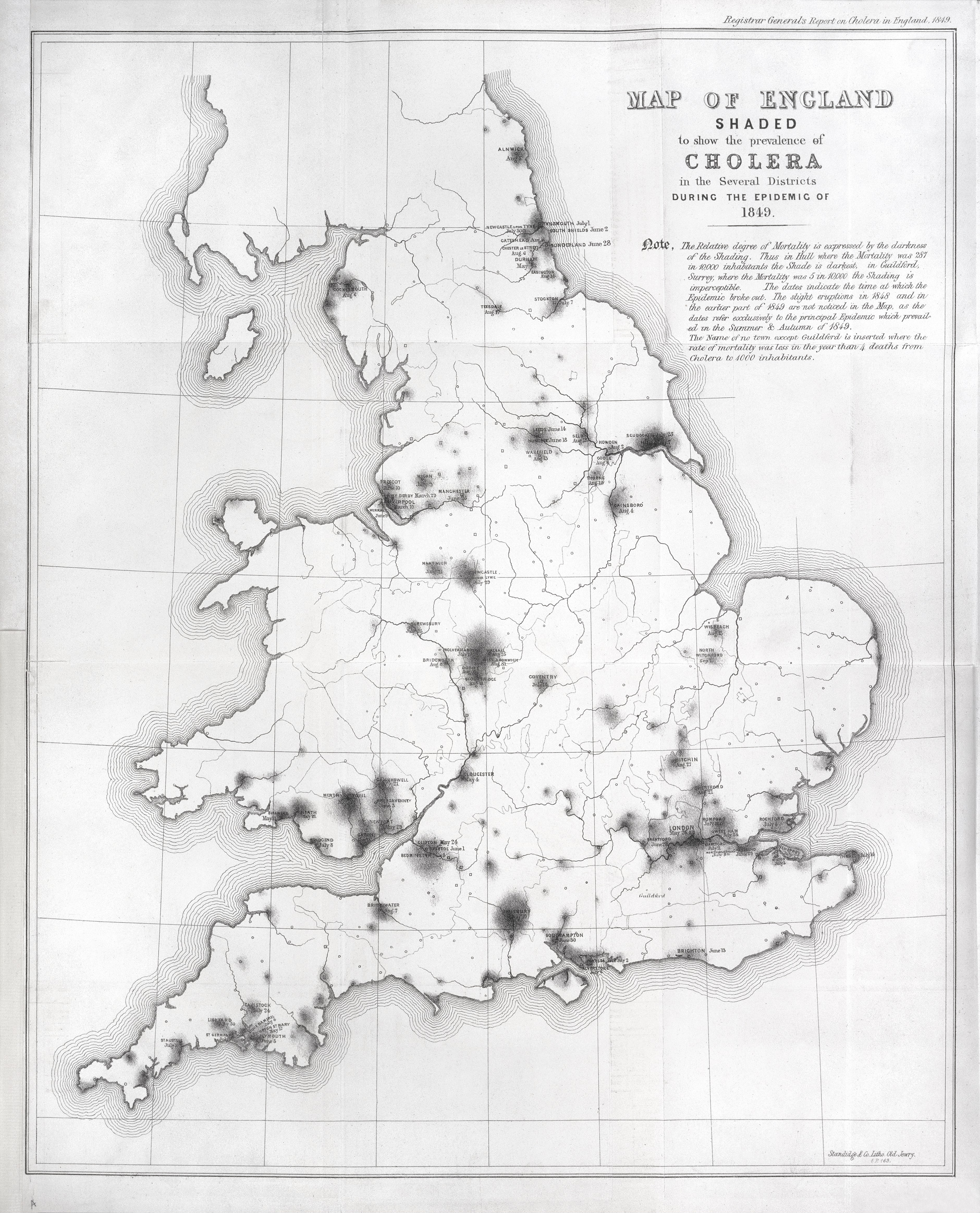 Map of England shaded to show the prevalence of cholera in the several districts during the epidemic of 1849. The relative degree of mortality is expressed in the darkness of the shading. The dates indicate the time at which the epidemic broke out.Printed Reproduction 1852